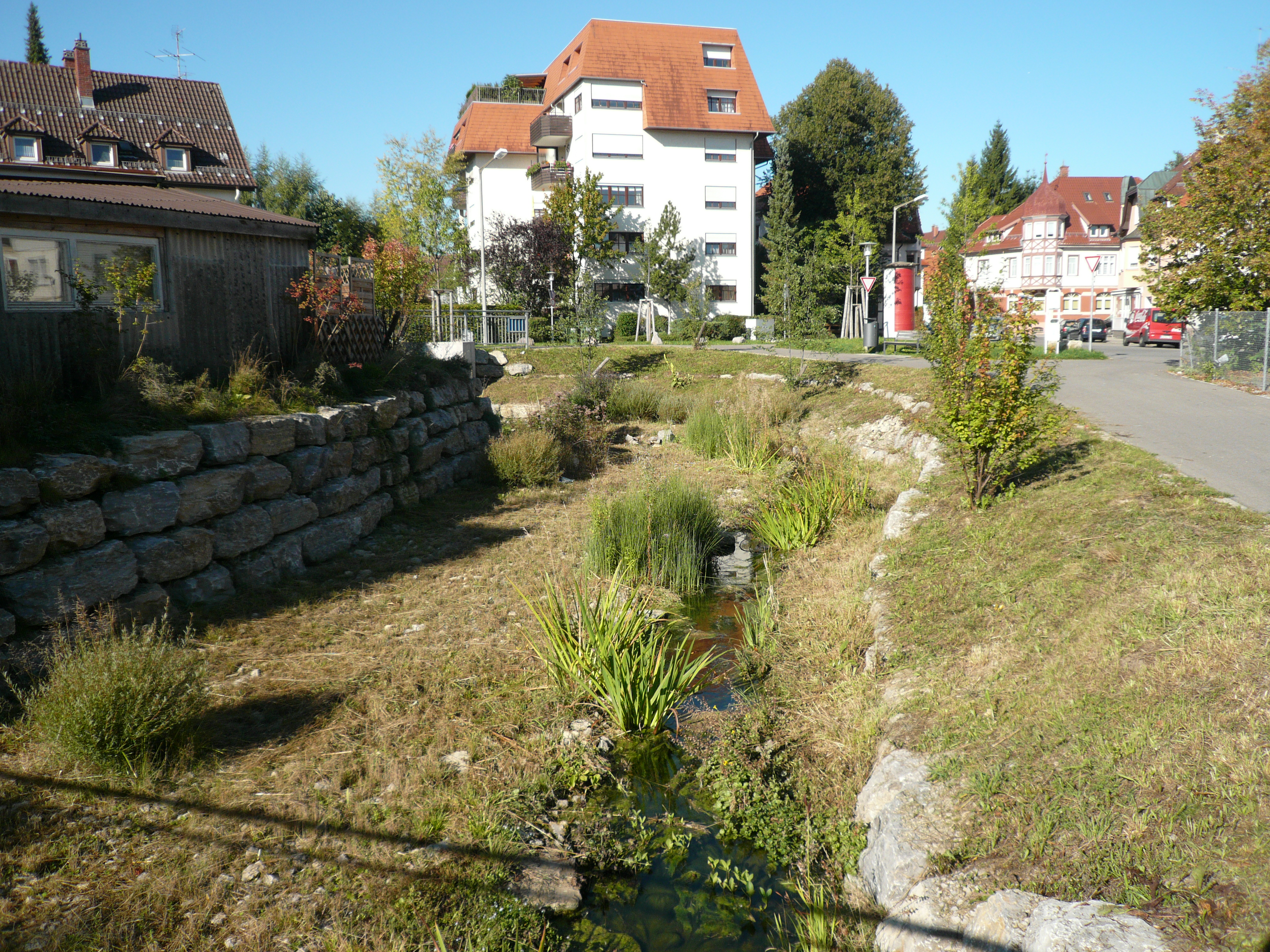 River Neckar at Schwenningen